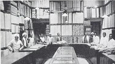 A showroom of textile merchants M. V. Cunniah Chetty and Sons, Chennai